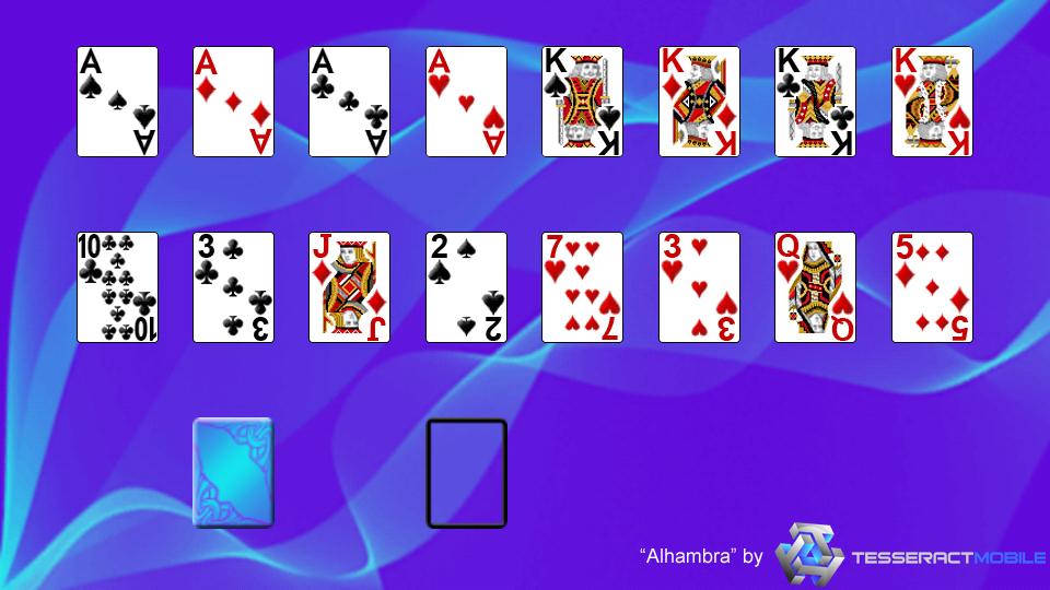 This image is a screenshot of the solitaire game "Alhambra".